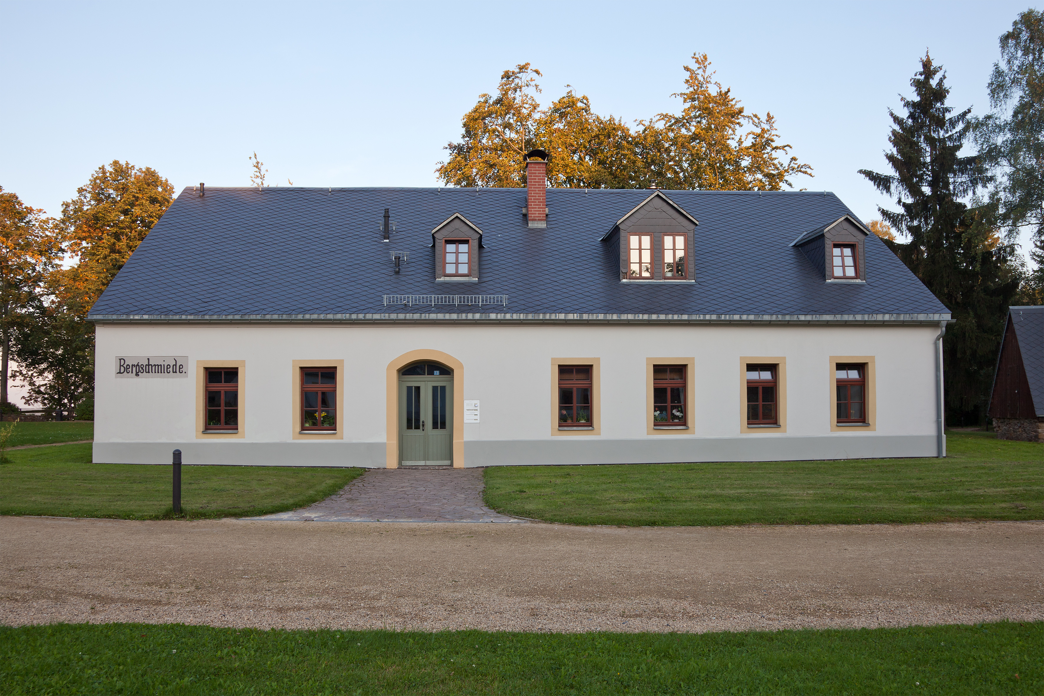 Brand-Erbisdorf/Freiberg, Zugspitze, Mendenschacht, Mordgrube (former mine, forge)